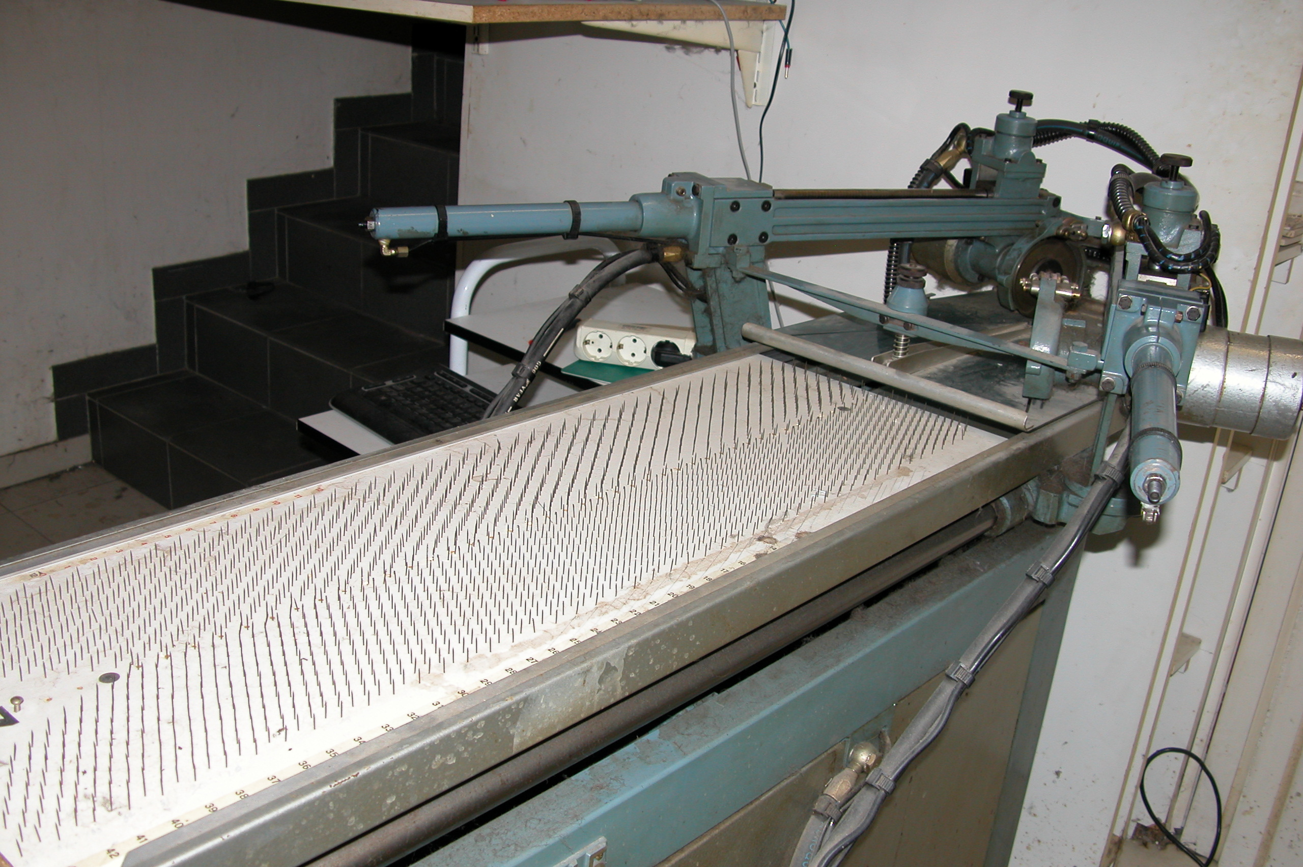 Furrier's tool: Vismatic 45, a fur cutting machine.